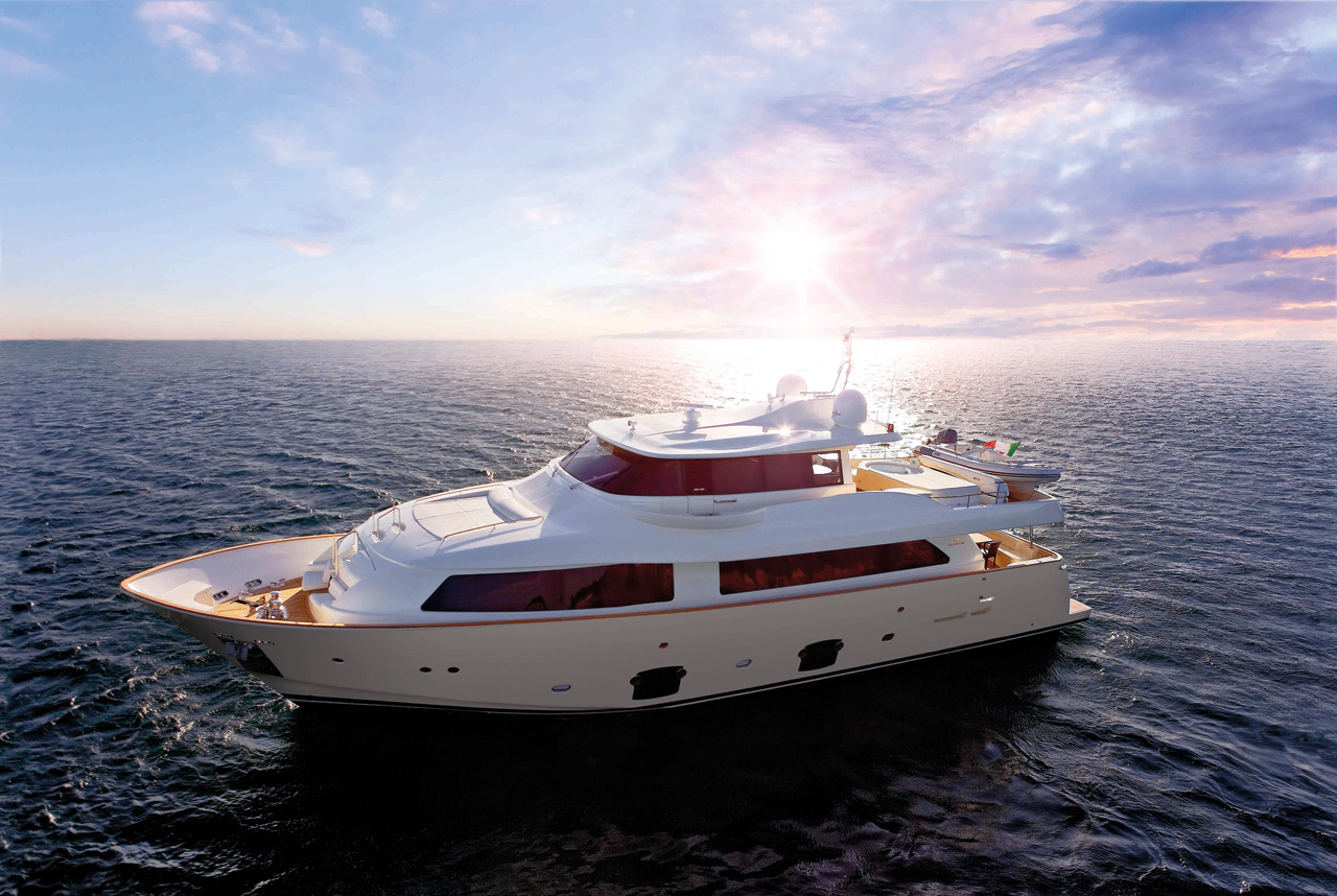 Exterior picture of Custom Line Navetta 26 yacht